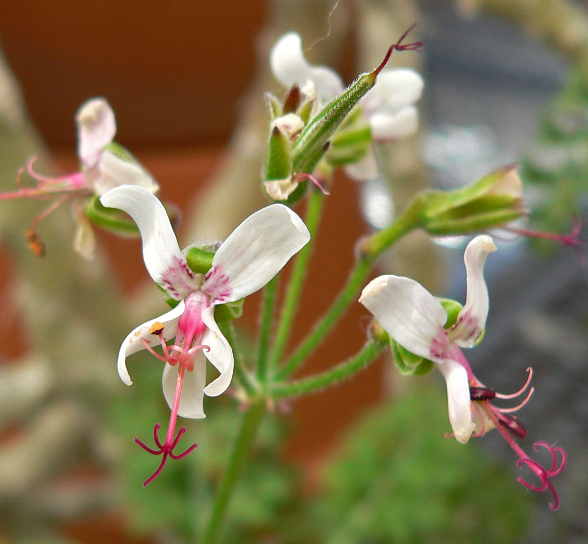 Pelargonium carnosum at the University of California Botanical Garden, Berkeley, California